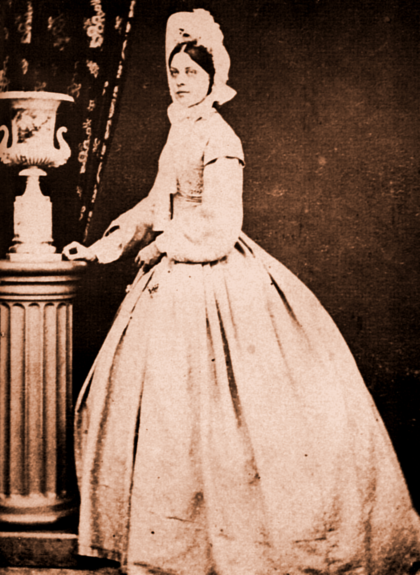 Marie Koopmans-de Wet as a young woman by the studio of Lawrence Brothers of Caledon Street, Cape Town, South Africa